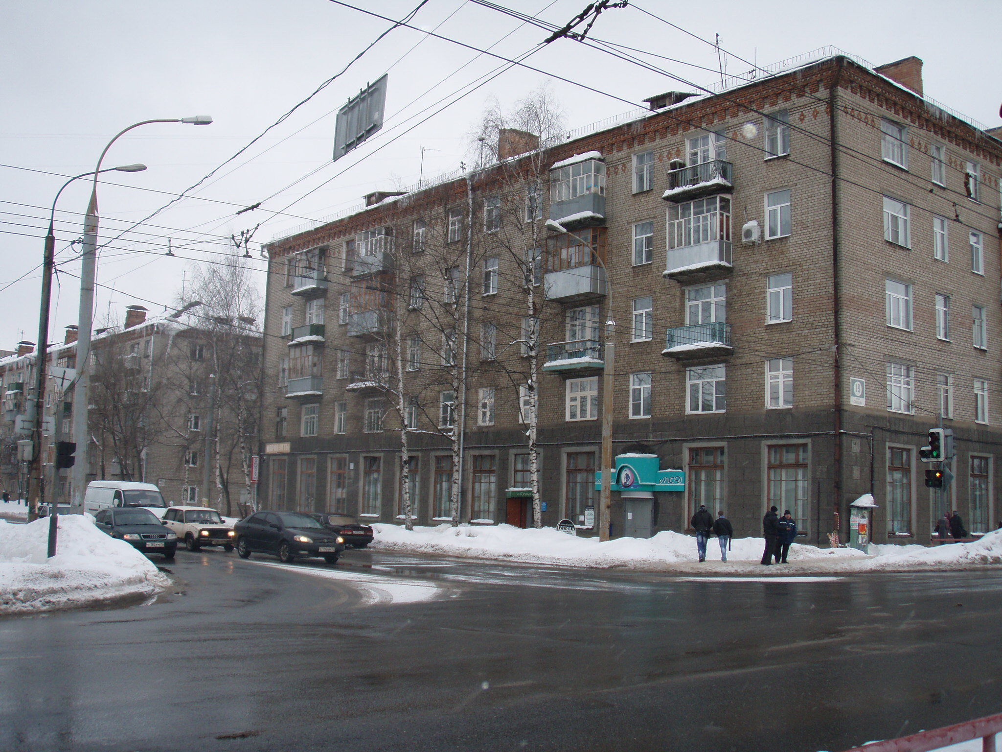 "Peeled" stalinist house (right) and brick khrushchyovka (left) in Rybinsk, Russia